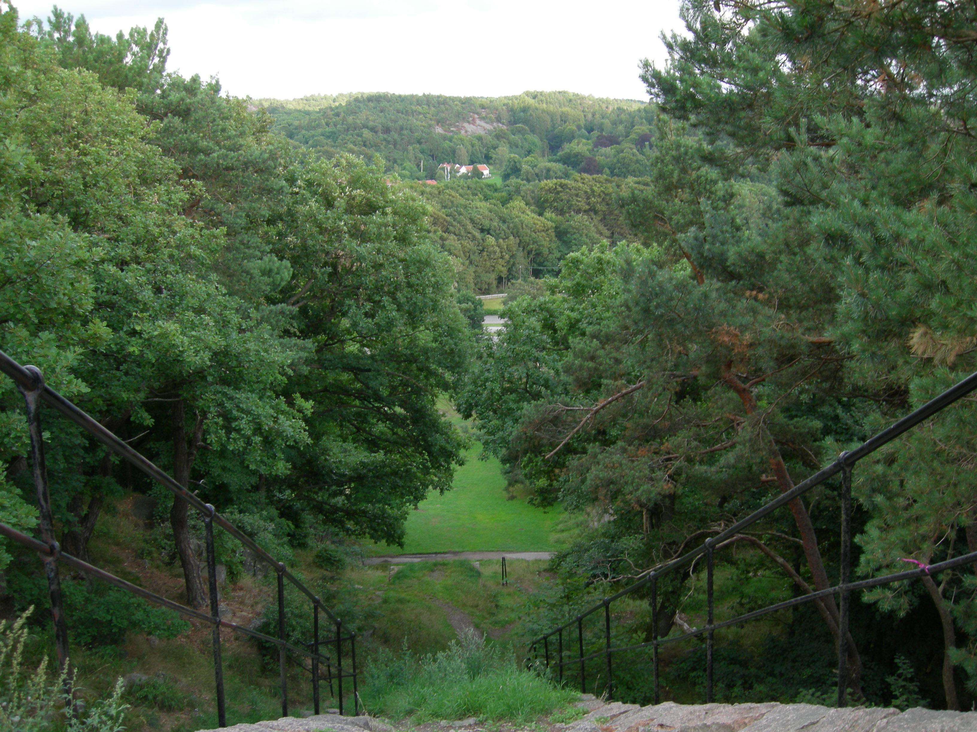 The old ski jump, Bragebacken, in Slottskogen, Göteborg. Photo taken from the top down the strip to the southeast with Ängårdsbergen in the background.